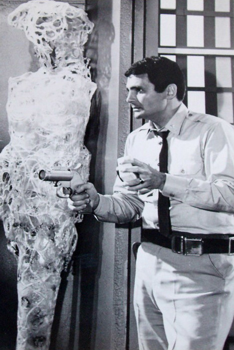 Photo of David Hedison as Commander Lee Crane from the television program Voyage to the Bottom of the Sea. The episode this photo is taken from is "Time Lock".